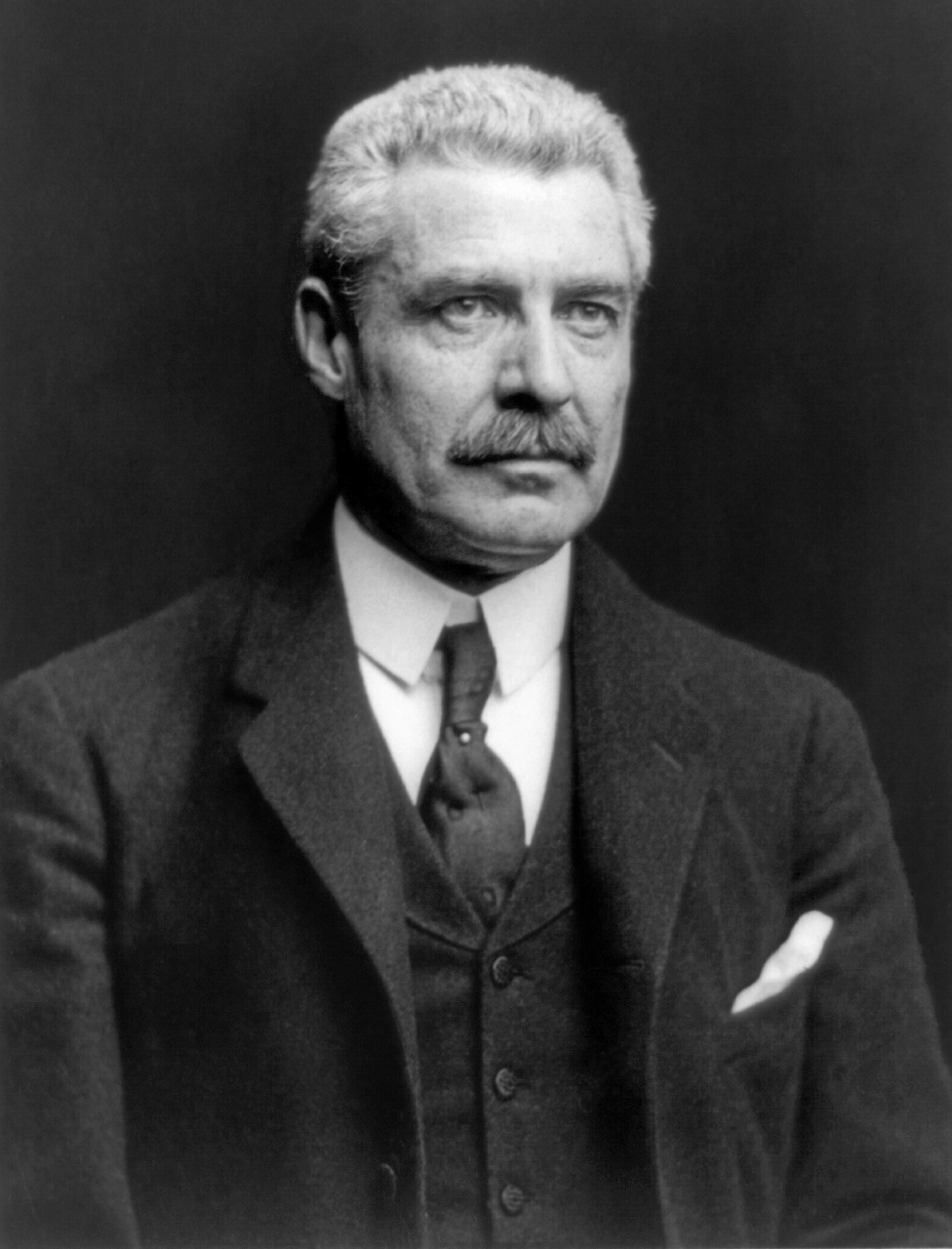 Samuel Rea, engineer and president of the Pennsylvania Railroad